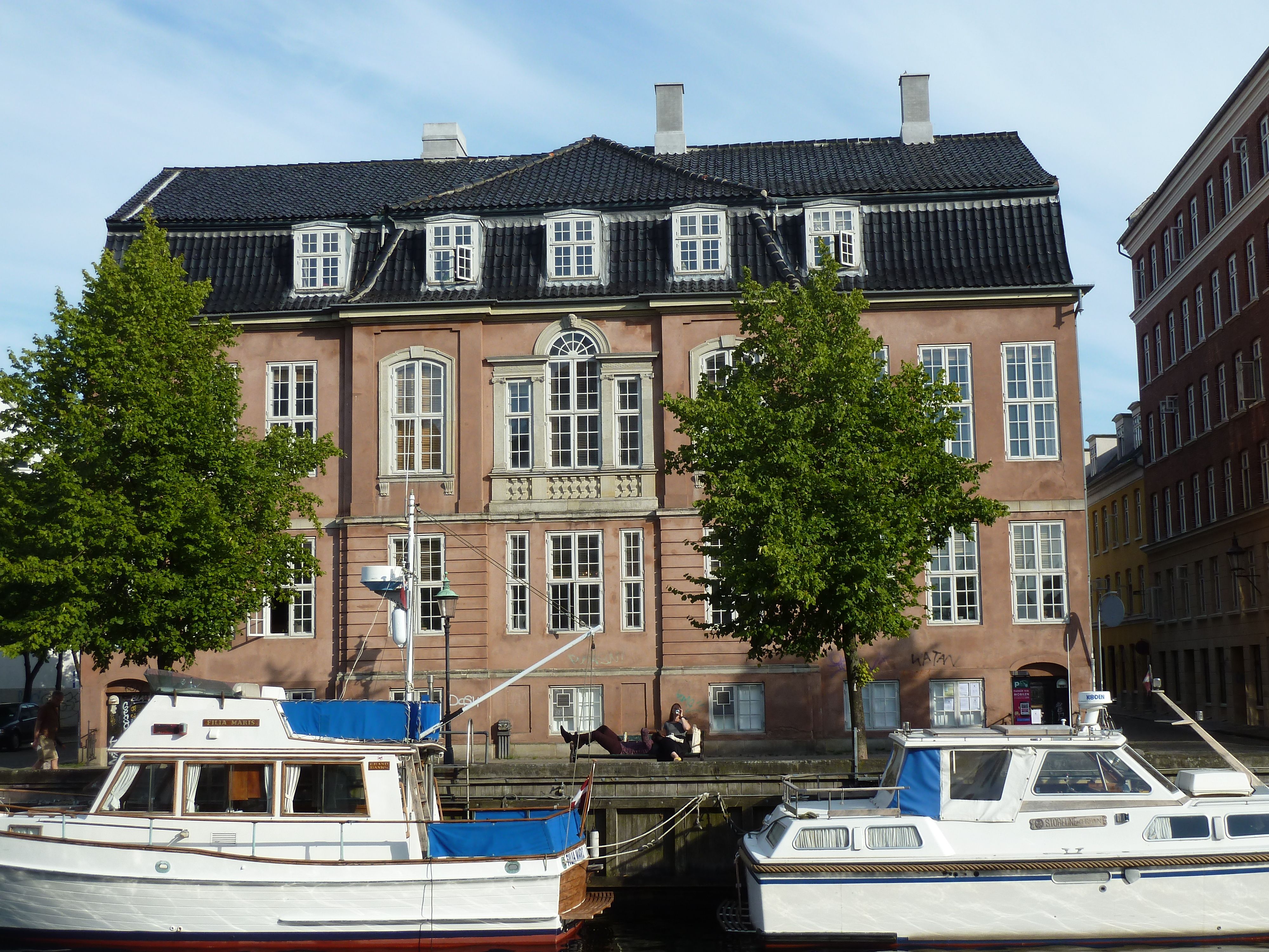 Stanleys Gård at Christianshavns Kanal in Copenhagen, Denmark